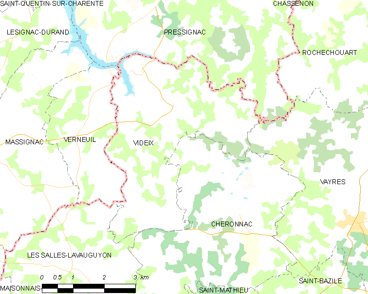 Map of French municipality Videix